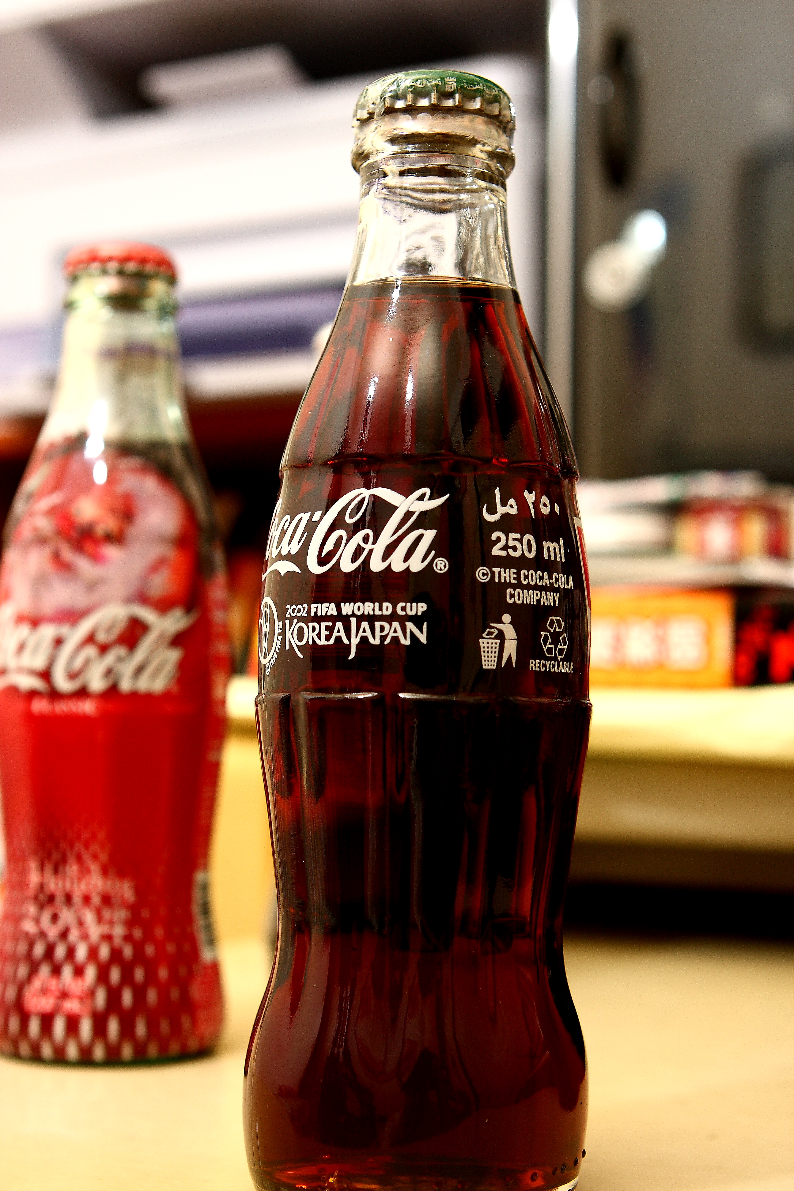 2002 football World Cup Coke Bottle